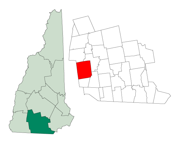 Map of a municipality in Hillsborough County, New Hampshire